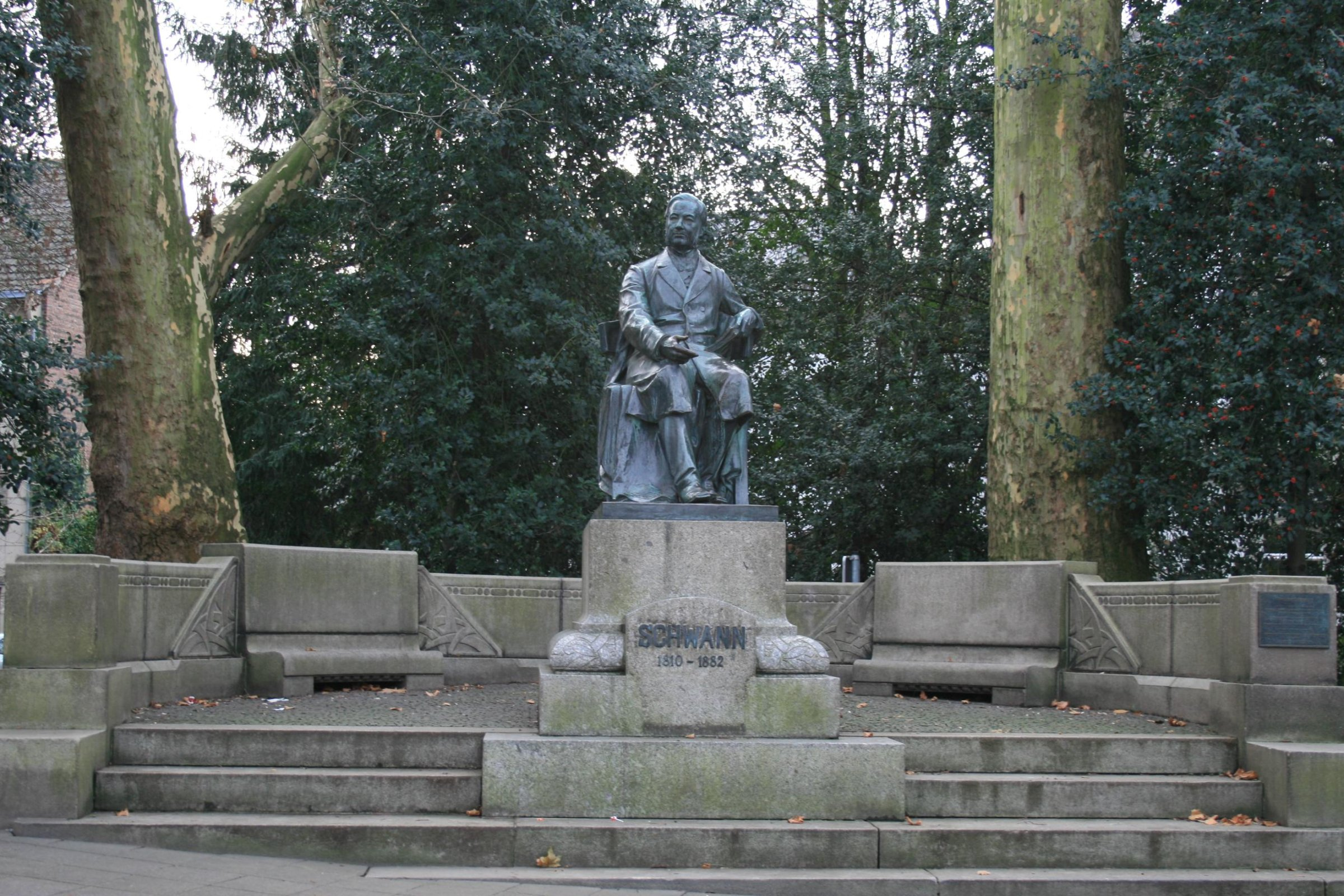 This is a photograph of an architectural monument.